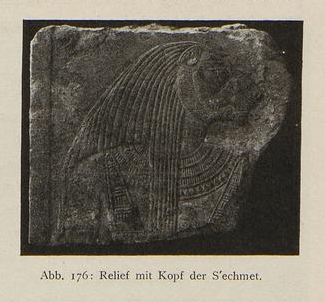 Relief fragment of Sekhmet from the mortuary temple of Sahure. Taken from Ludwig Borchardt's Das Grabdenkmal des Königs Sahur-Re (1910).